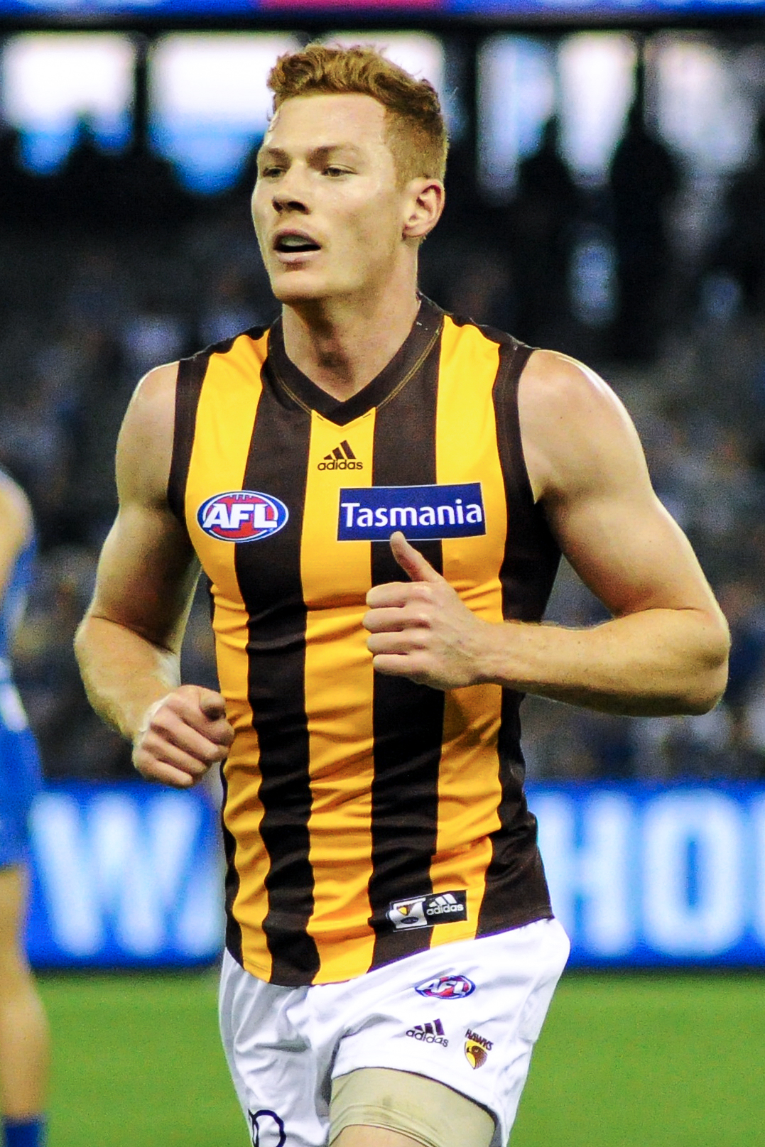 Tim O'Brien during the AFL round five match between North Melbourne and Hawthorn on Sunday, 22 April 2018 at Etihad Stadium in Melbourne, Victoria.